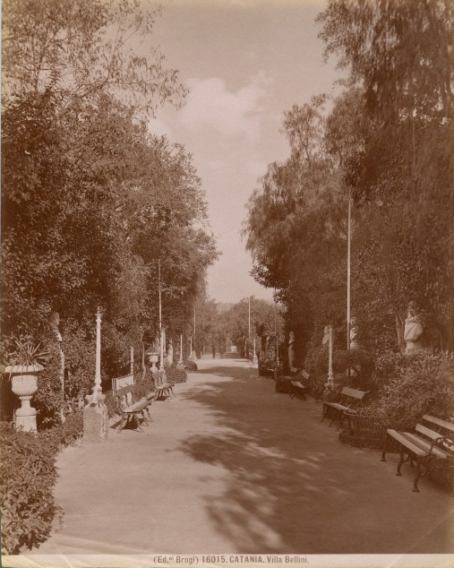 Carlo Brogi (1850-1925) - "Catania - Villa Bellini publick park". Catalogue # 16.815.